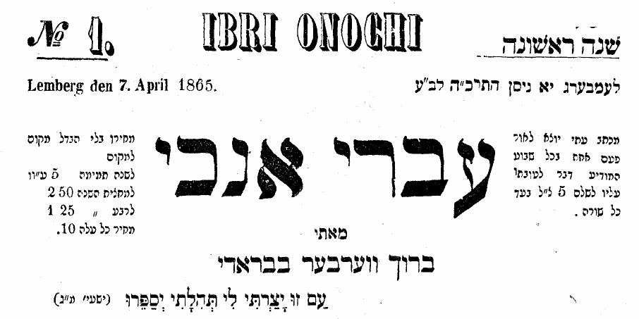 מתוך העמוד הראשון של הגיליון הראשון של כתב העת "עברי אנוכי"